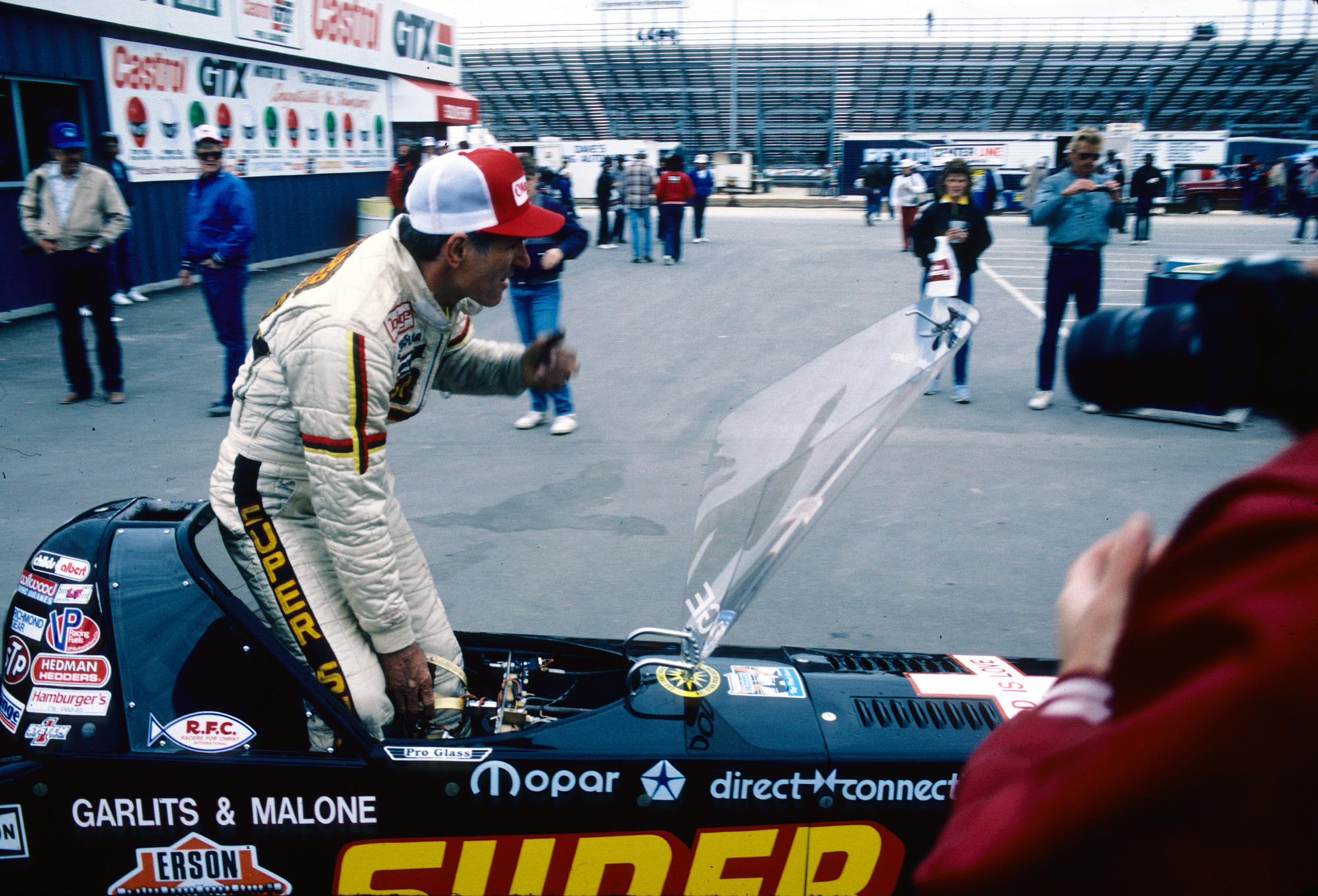 Don Garlits, Texas Motorplex, April 1987. He was considered the father of drag racing in the United States.Don Garlits